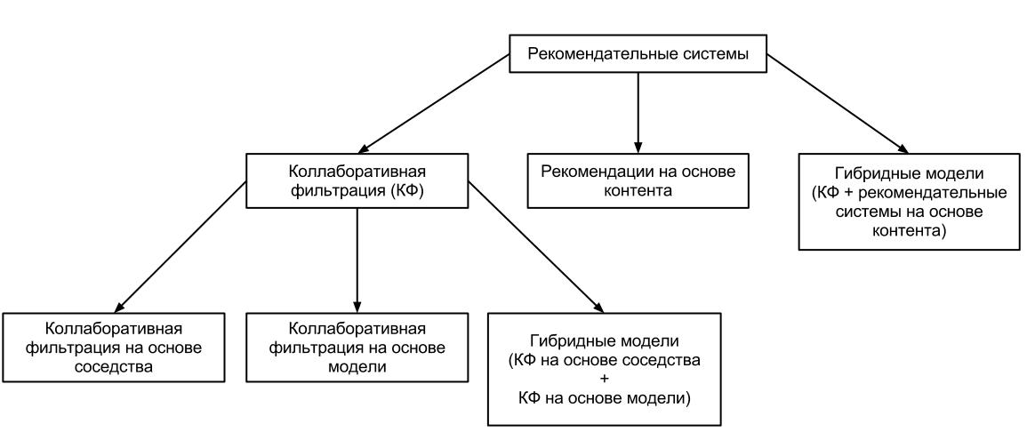 Collaborative filtering: Artistic visualization.